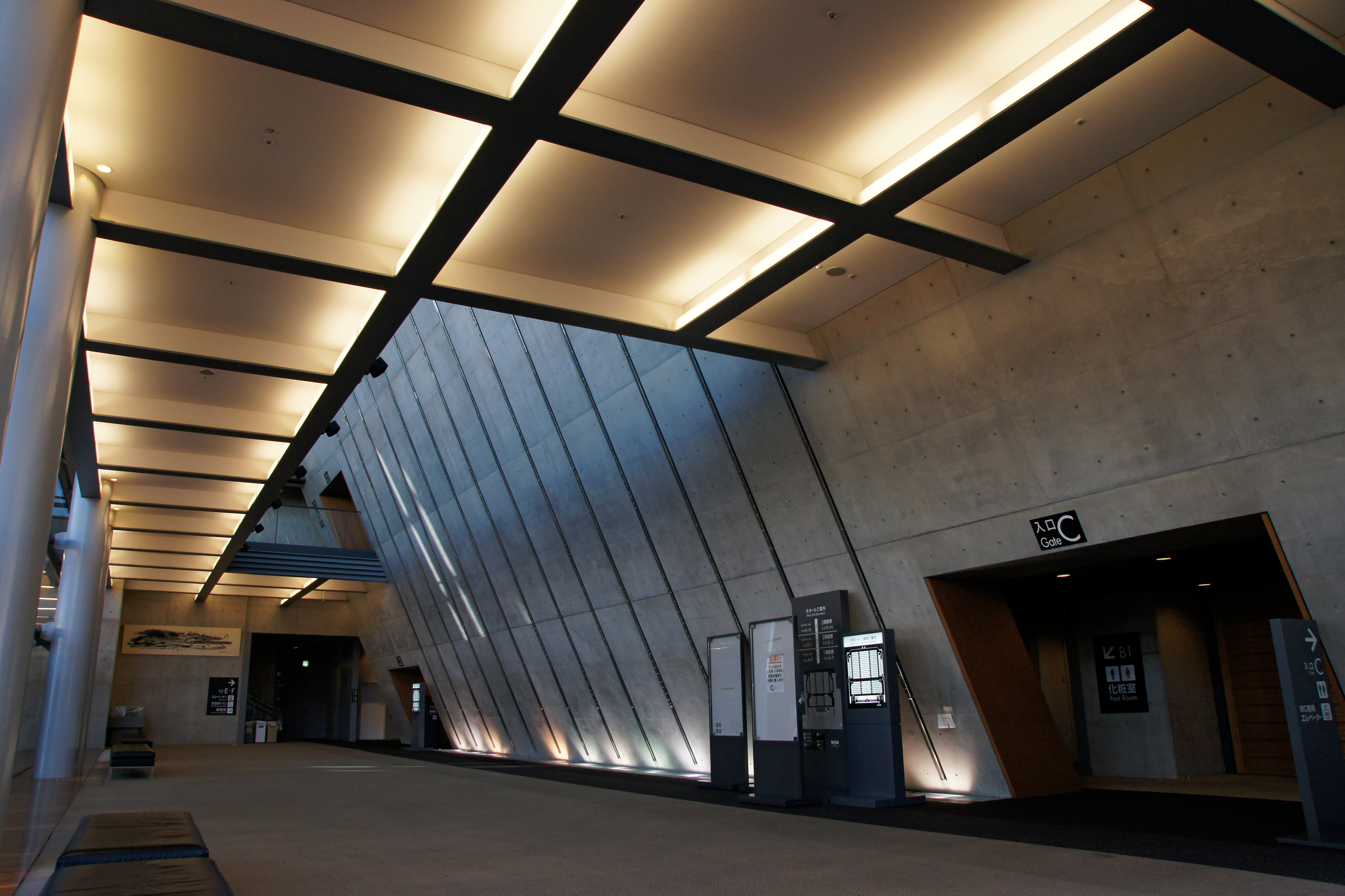 Namikiri Hall in Kishiwada, Osaka prefecture, Japan